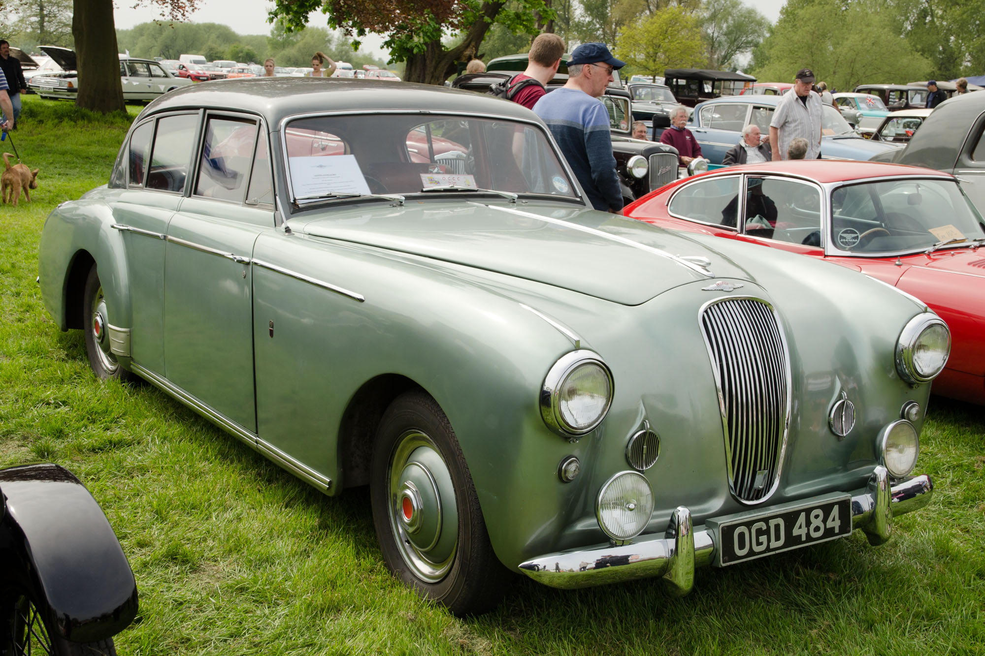 1955 Lagonda 3-Litre 4-door saloon(DVLA) first registered 5 May 1955, 2922cc Catton Hall Classic Car Show 04/05/2014